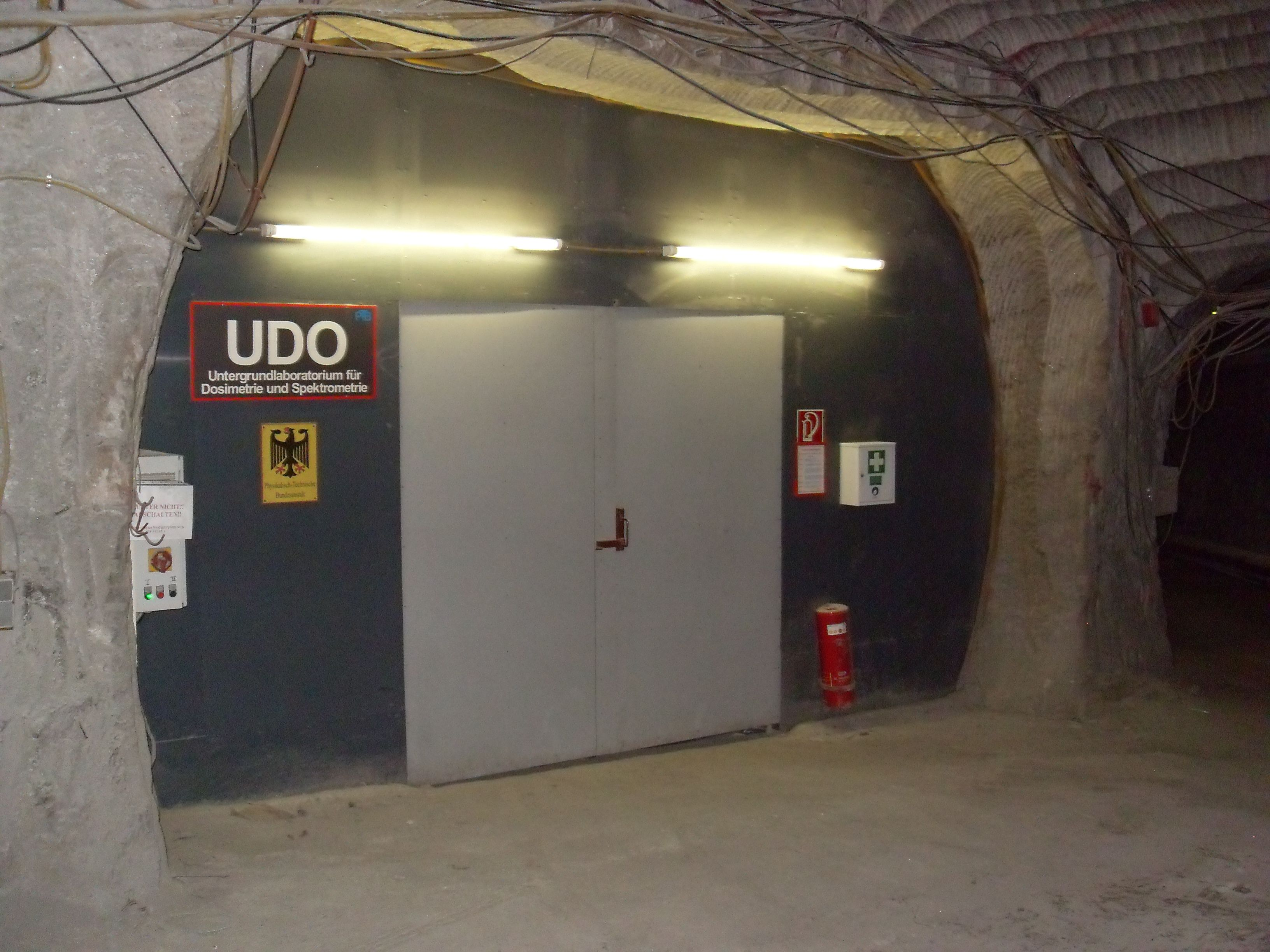 The former PTB underground laboratory for dosimetry and spectrometry located in the Asse 2 saltmine. Since 2012 the PTZB does not operate the laboratory at Asse anymore